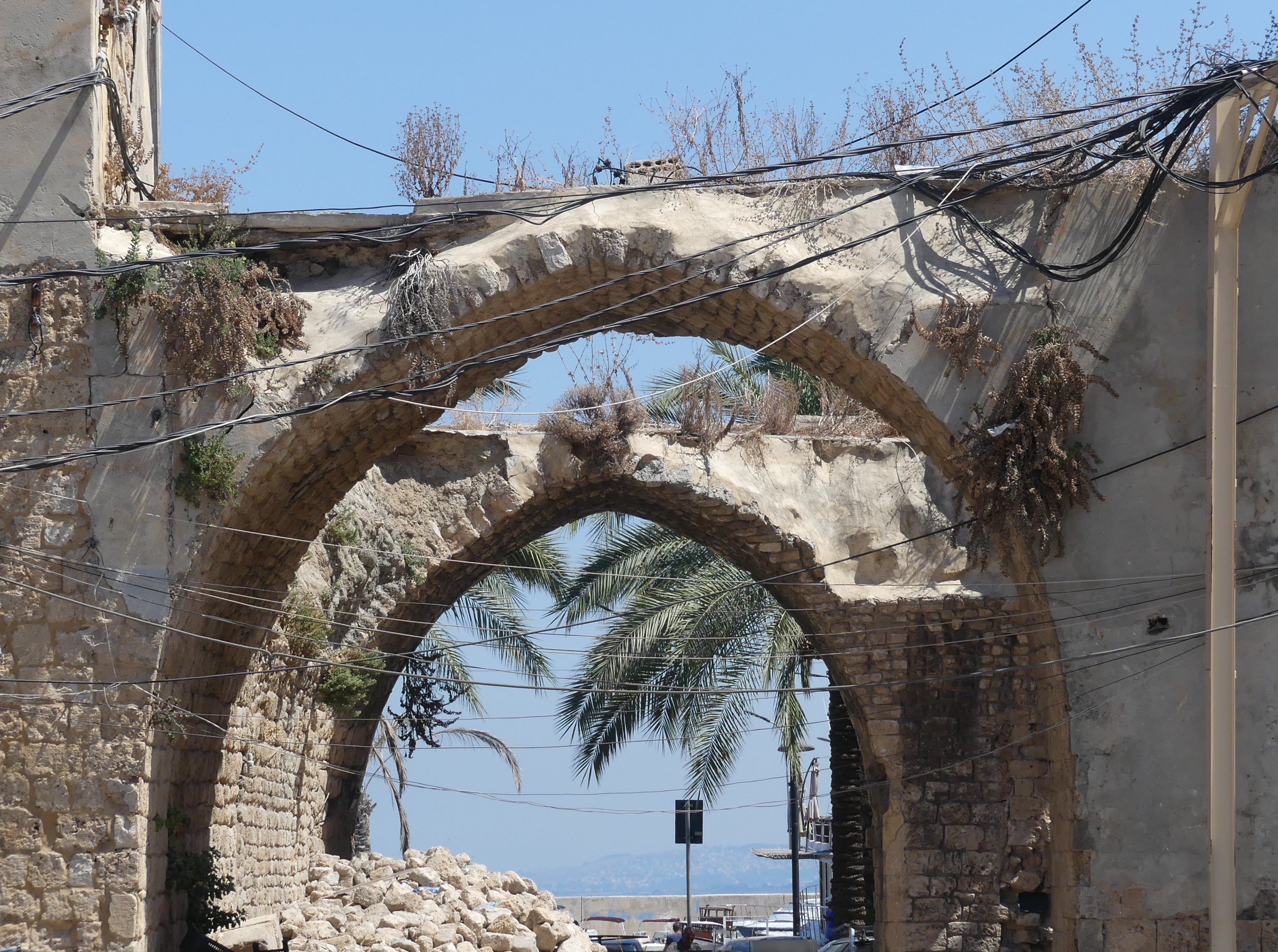 The ruins of the building that used to house the Empire Cinema, the second regular movie theatre in Tyre/Sour (Southern Lebanon), founded in 1942, between the fishing harbour, the Serai, and the municipality building.